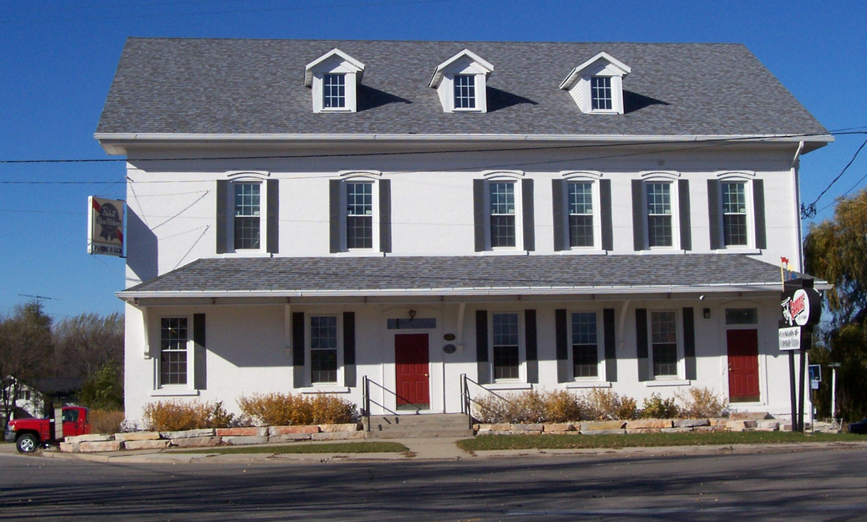 Looking west at Capone's in downtown Pipe, Wisconsin, USA while traveling on U.S. Route 151. The building was a stagecoach inn built in 1846 by Henry Fuhrman. Fuhrman's inn became a major stop on Military Road (now U.S. Highway 151), the first road through the Wisconsin wilderness in the region of the state. The inn featured a three story building with a dance floor on the second floor which served as a gathering place for the youth in the community.